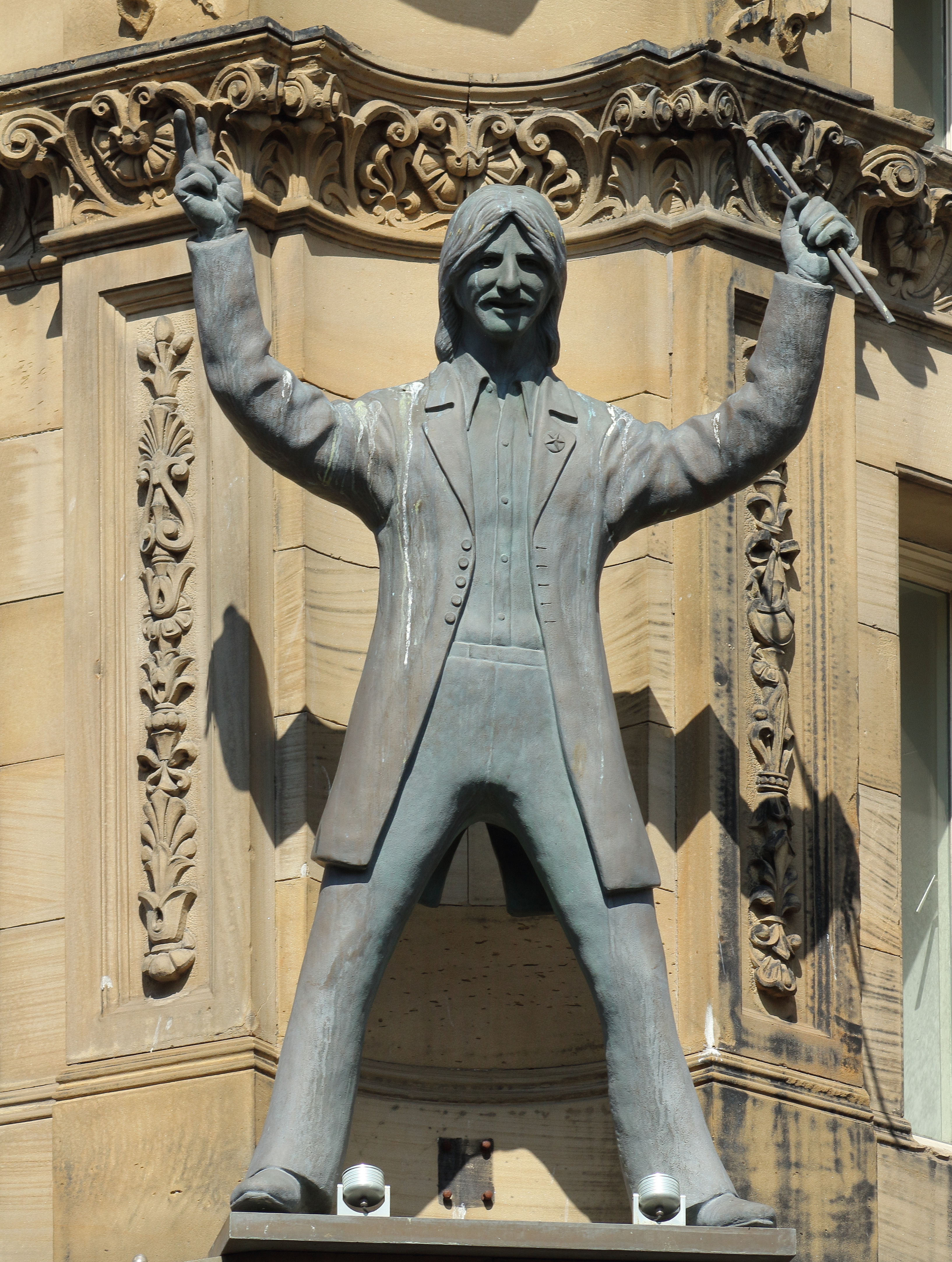 Statue of Ringo Starr on the front elevation of the Hard Days Night Hotel, North John Street, Liverpool, corner of Harrington Street.